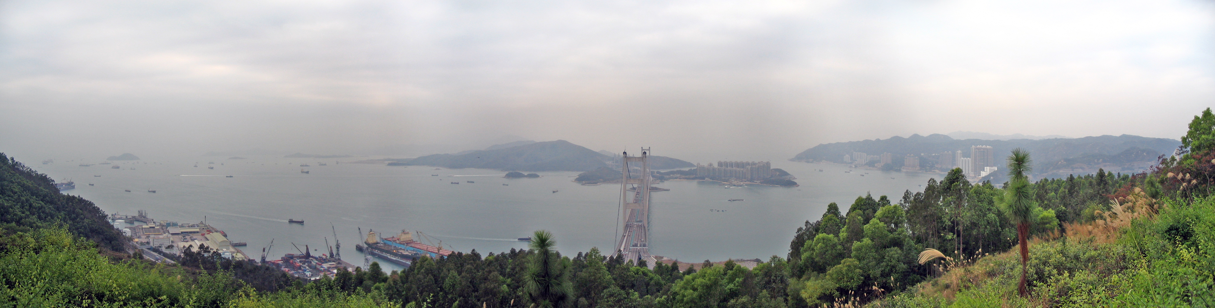 Panoramic photo of Ma Wan Channel, combined from 2145669827, 2146462100, 2145668629, 2145668065, 2146460602, 2145666999 and 2145666431